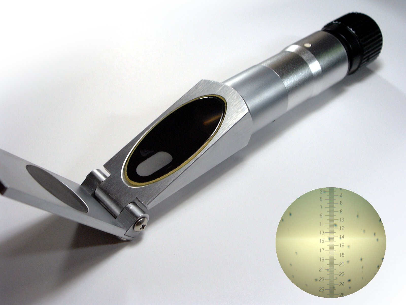 Photo of a Handheld Refractometer used to measure sugar content (Brix level) of fruits. The image includes a view through the eyepice of the instrument, a small drop of orange juice was put over the measuring prism to take the picture.